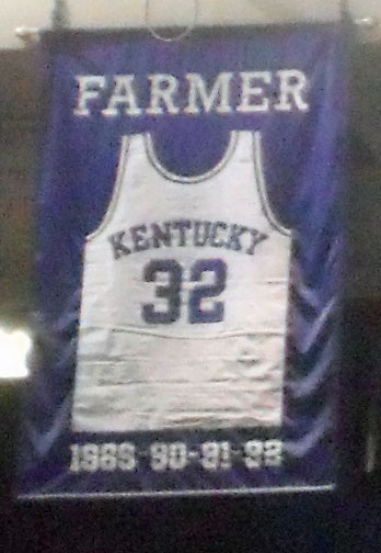 A jersey honoring Richie Farmer hangs in Rupp Arena